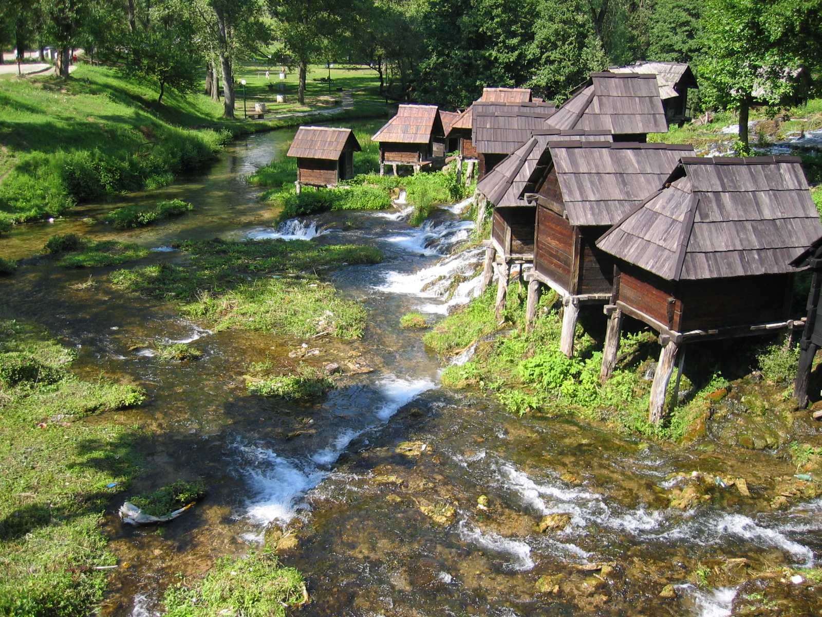 Several watermills run by river Pliva. Were used by all people nearby, within 10-20km, to make flour. Nowdays they are a tourist attraction.